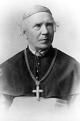 Zygmunt Szczęsny Feliński